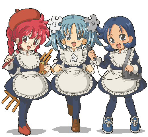 oekaki drawing of Commons-tan, Wikipe-tan, Wikiquote-tan (the moe-anthropomorphic versions of Wikimedia Commons, Wikipedia and Wikiquote, respectively)